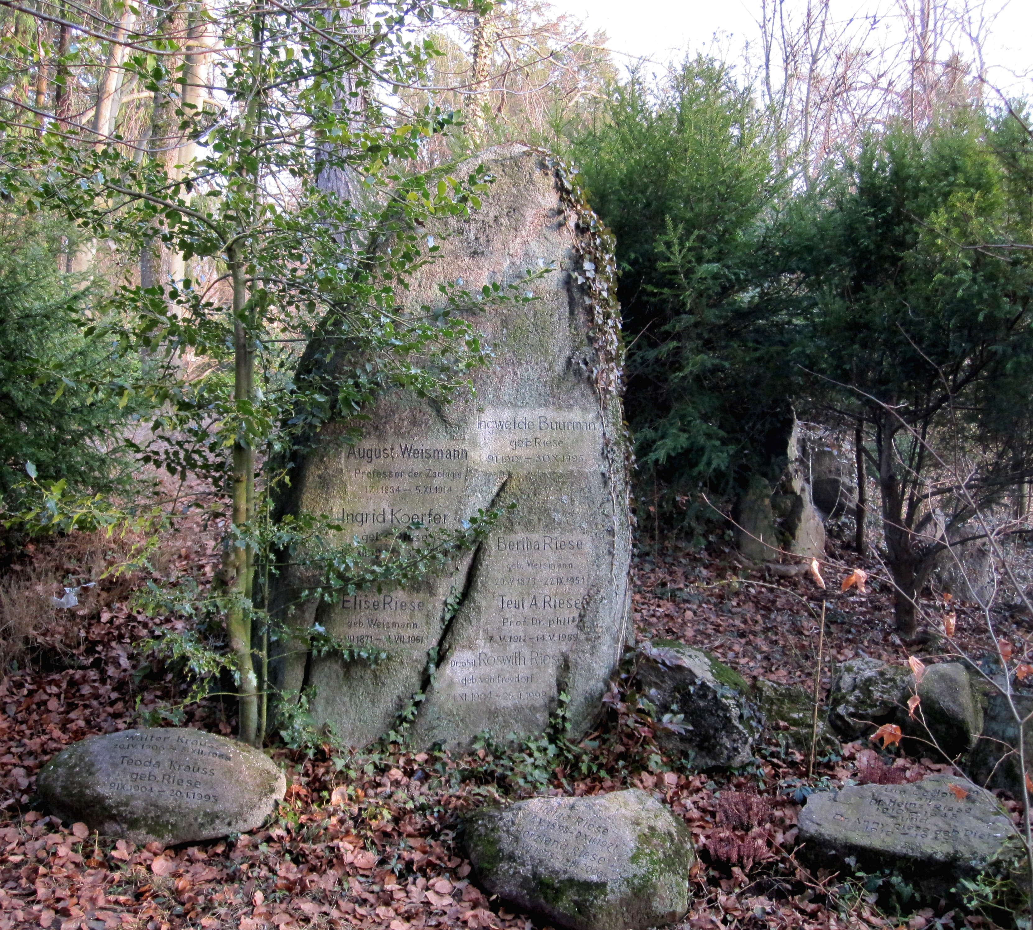 Grave of Prof. August Weismann